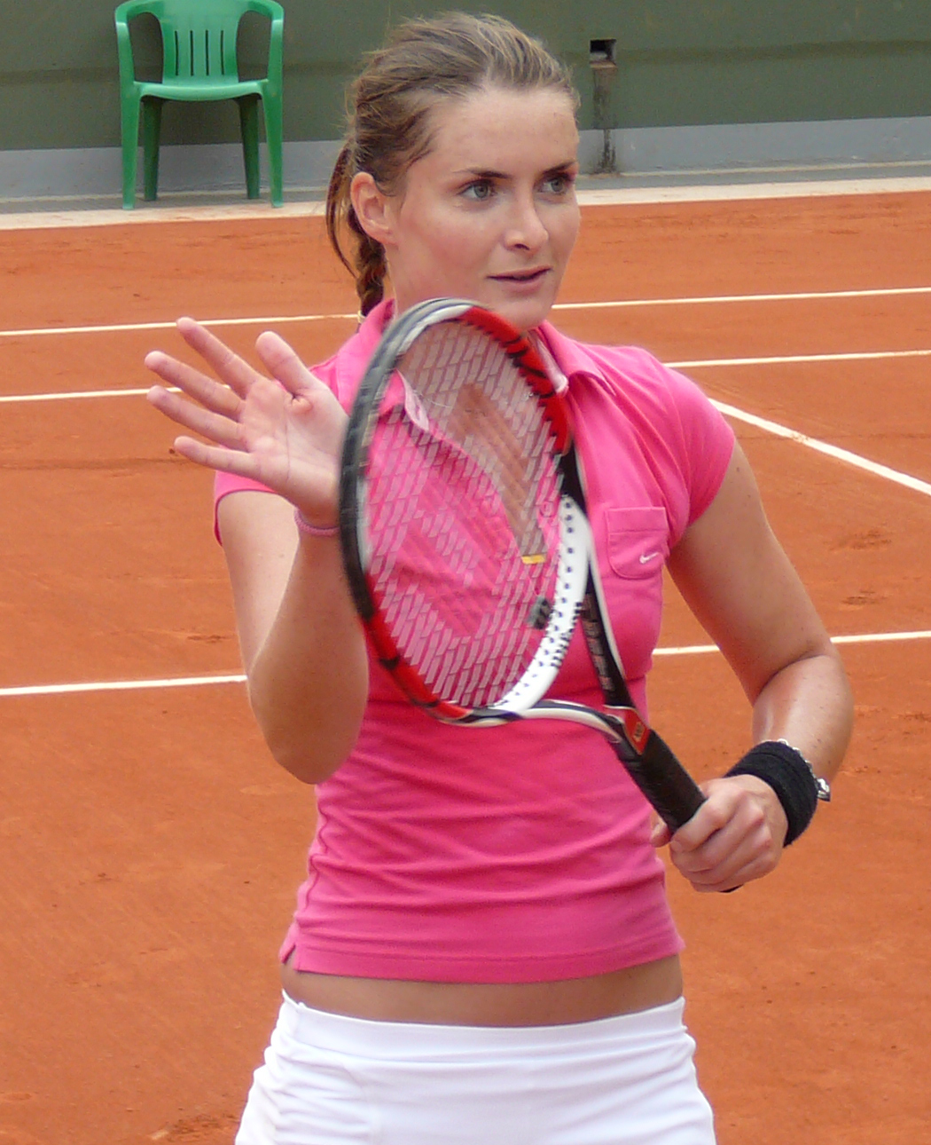 Iveta Benesova at Roland Garros 2008